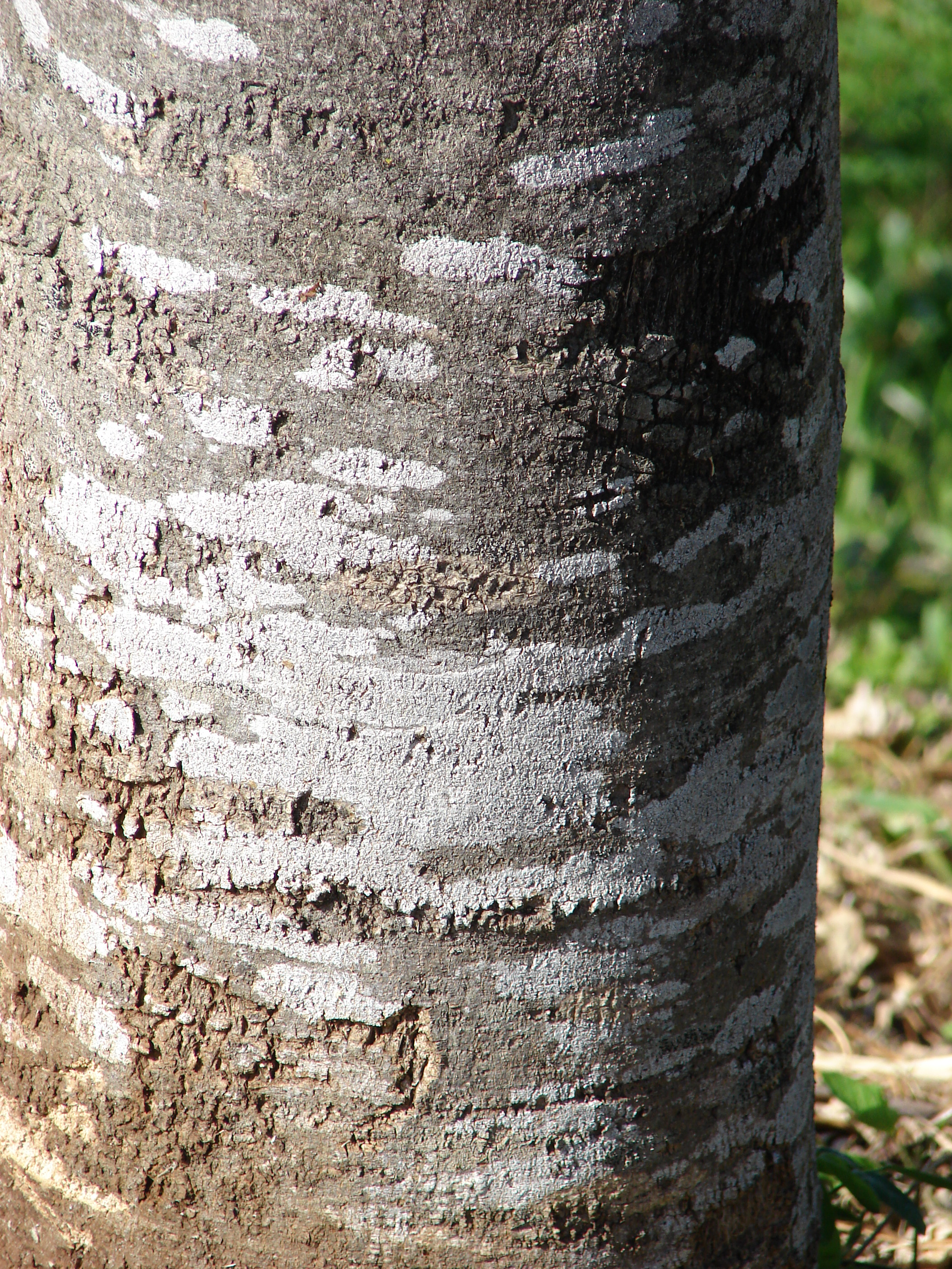 Cananga odorata (trunk). Location: Maui, Eddie Tam Makawao